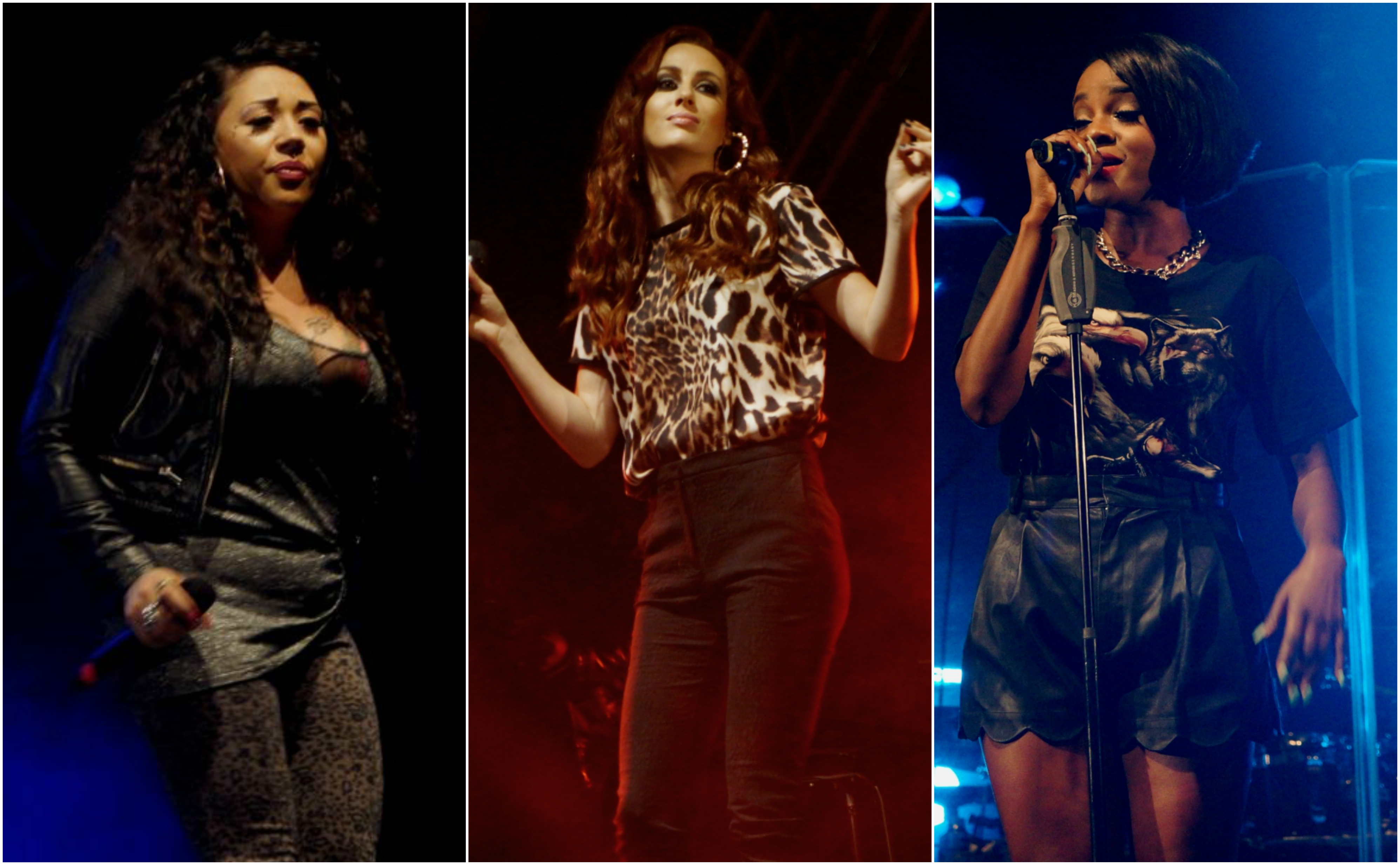 These are all the members of the English girl group the Sugababes (formerly Mutya Keisha Siobhan)